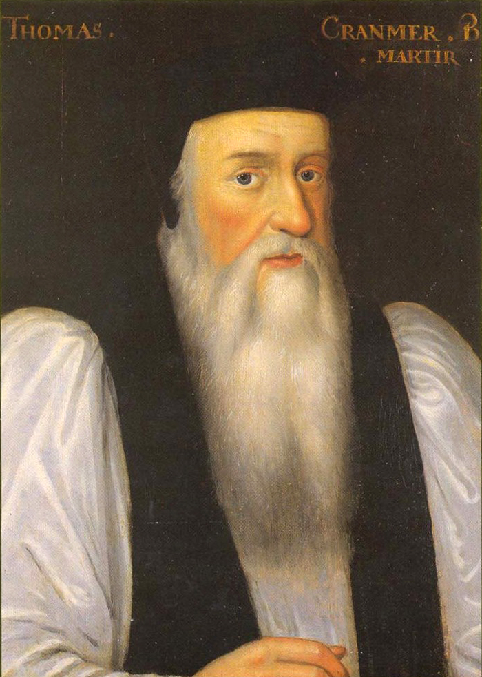 Thomas Cranmer. Cranmer, Archbishop of Canterbury from 1533 to 1555, was the architect of the English Reformation. A portrait by Gerlach Flicke shows him without a beard in 1546, so the present painting depicts him late in life. The first images of Cranmer with a long beard appeared in Boissard's collection of portraits from 1560 (Image:Thomas-Cranmer.jpg), and in John Foxe's Actes and Monuments in 1563 (Image:Foxe's Book of Martyrs - Cranmer & Cole.jpg), seven years after Cranmer's burning. Foxe describes him as "of stature mean, of complexion pure and somewhat sanguine" and as having "a long beard, white and thick". (See Roy Strong, Tudor and Jacobean Portraits, London: HMSO, 1969, pp. 53–56; Diarmaid MacCulloch, The Boy King: Edward VI and the Protestant Reformation, Berkeley: University of California Press, 2002, p. 78.)